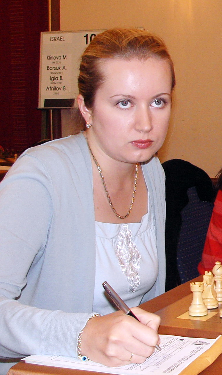 WGM Atalik Ekaterina (Turkey), Heraklion 2007